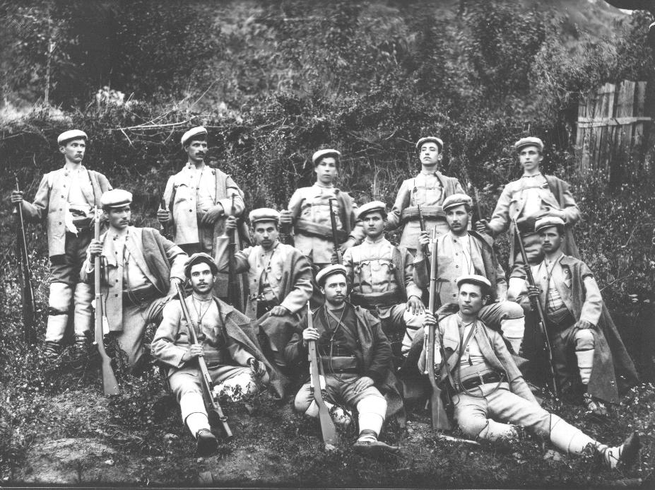 Cheta of IMARO voivoda Petar Semerdzhiev